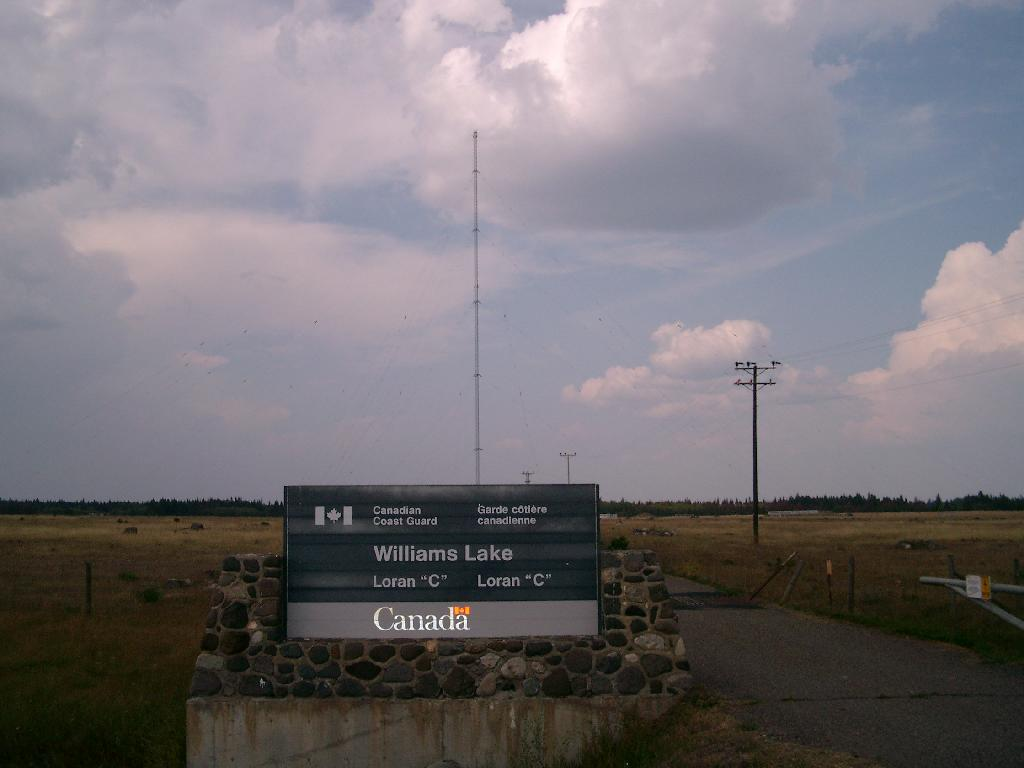 The Coast Guard Loran Station along British Columbia Highway 20 near Riske Creek, outside of Williams Lake.